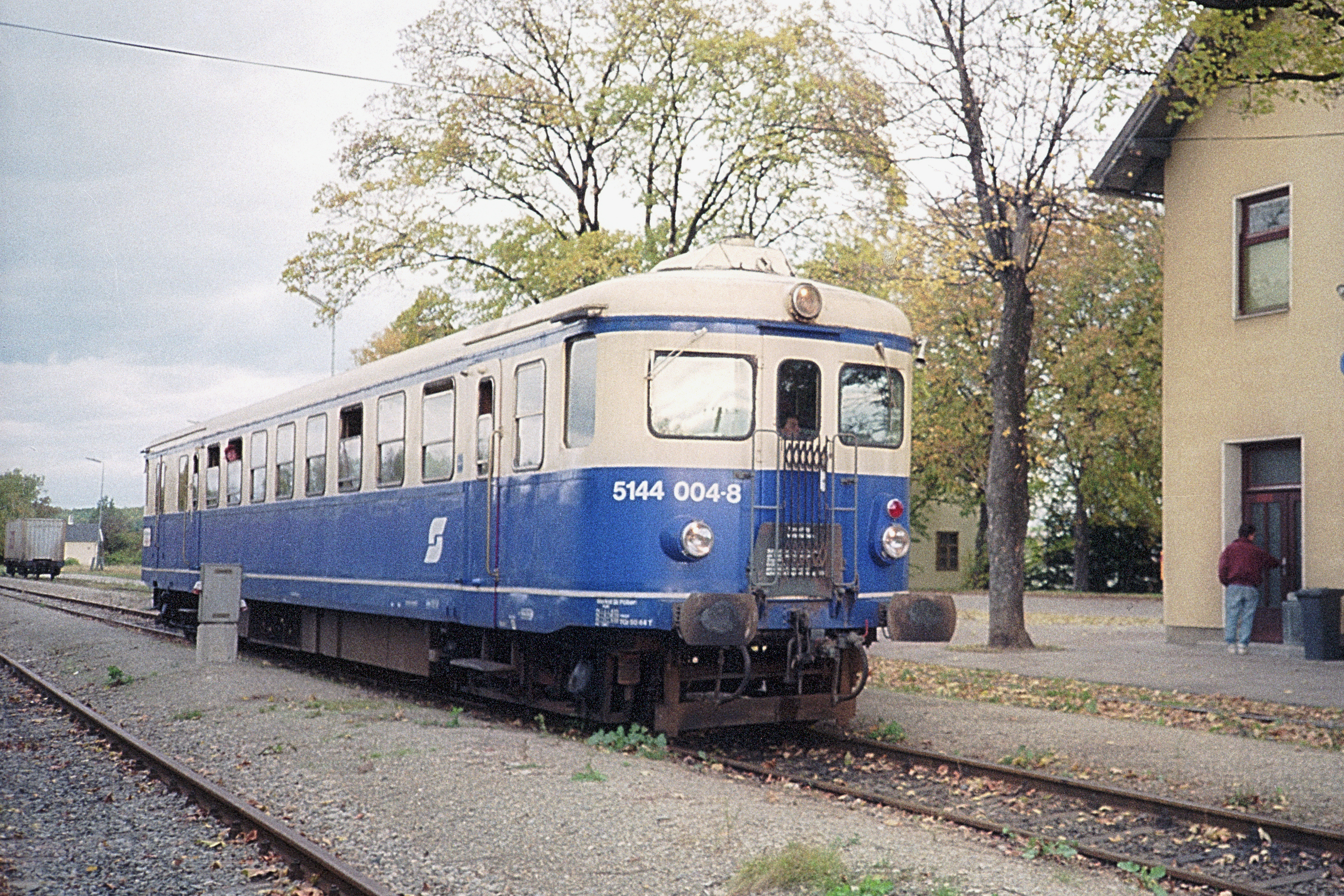 ÖBB 5144 004 as an enthusiast's special at Oberpullendorf station. (Scan from colour film)